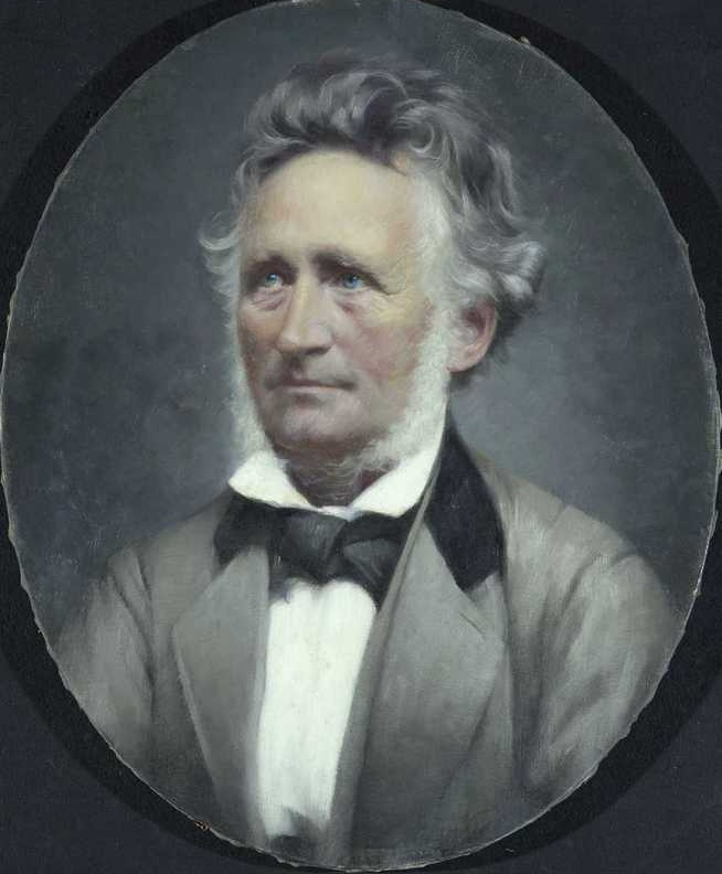 Christian August Egeberg (1809-1874), Norwegian physician. Painted by Asta Nørregaard from a photography from ca.1870.